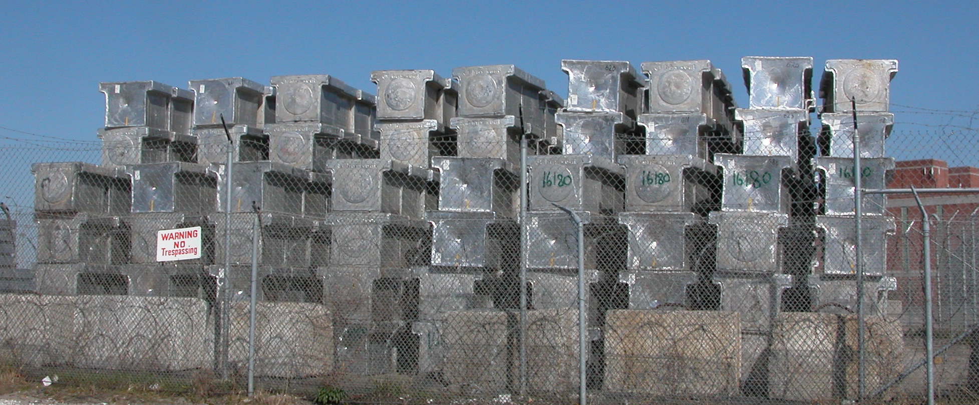 Ingots of aluminum from Baz Sual in Russia.